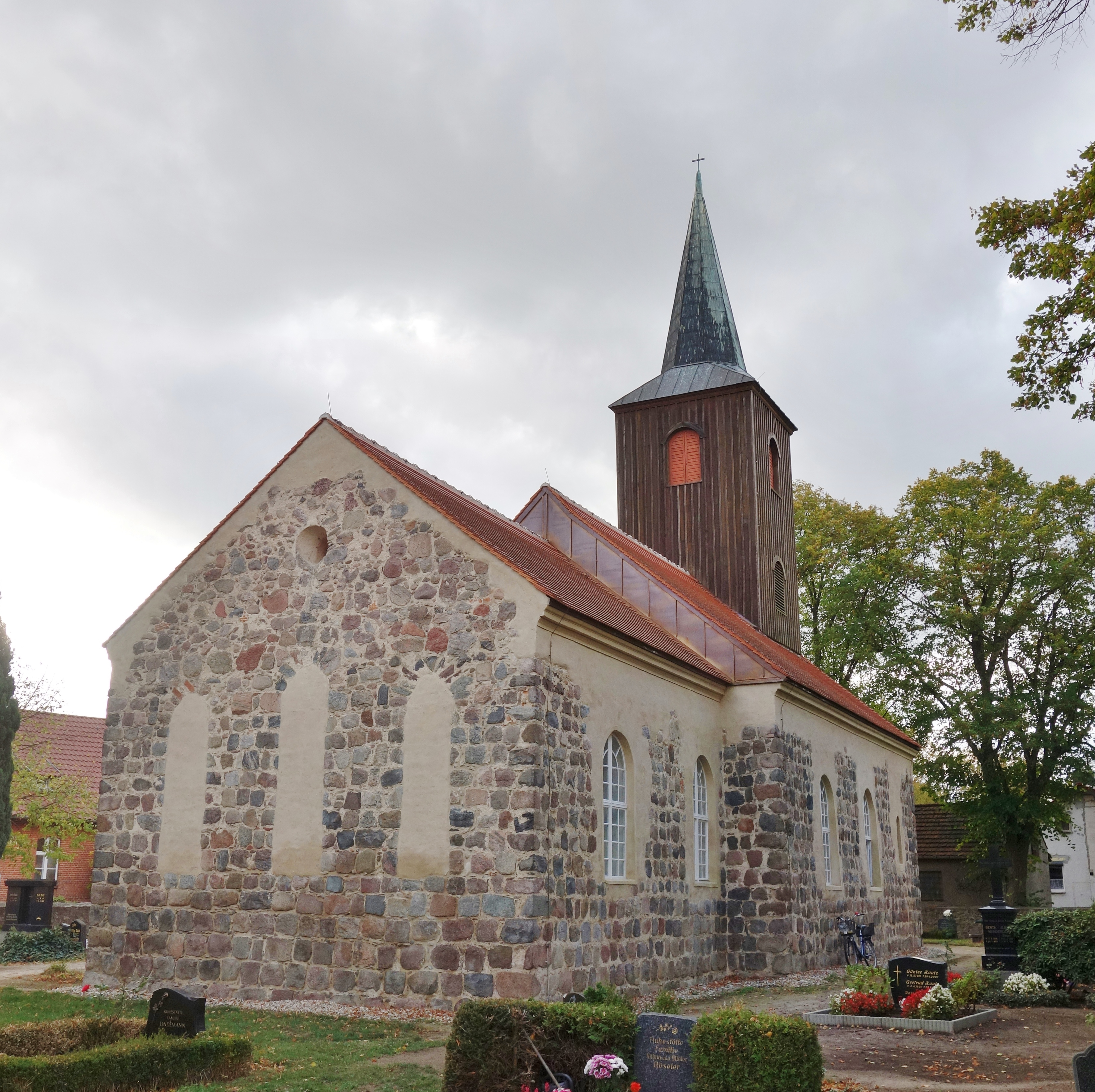 North-eastern view of the church in Sputendorf , Stahnsdorf municipality , Potsdam-Mittelmark district, Brandenburg state, Germany